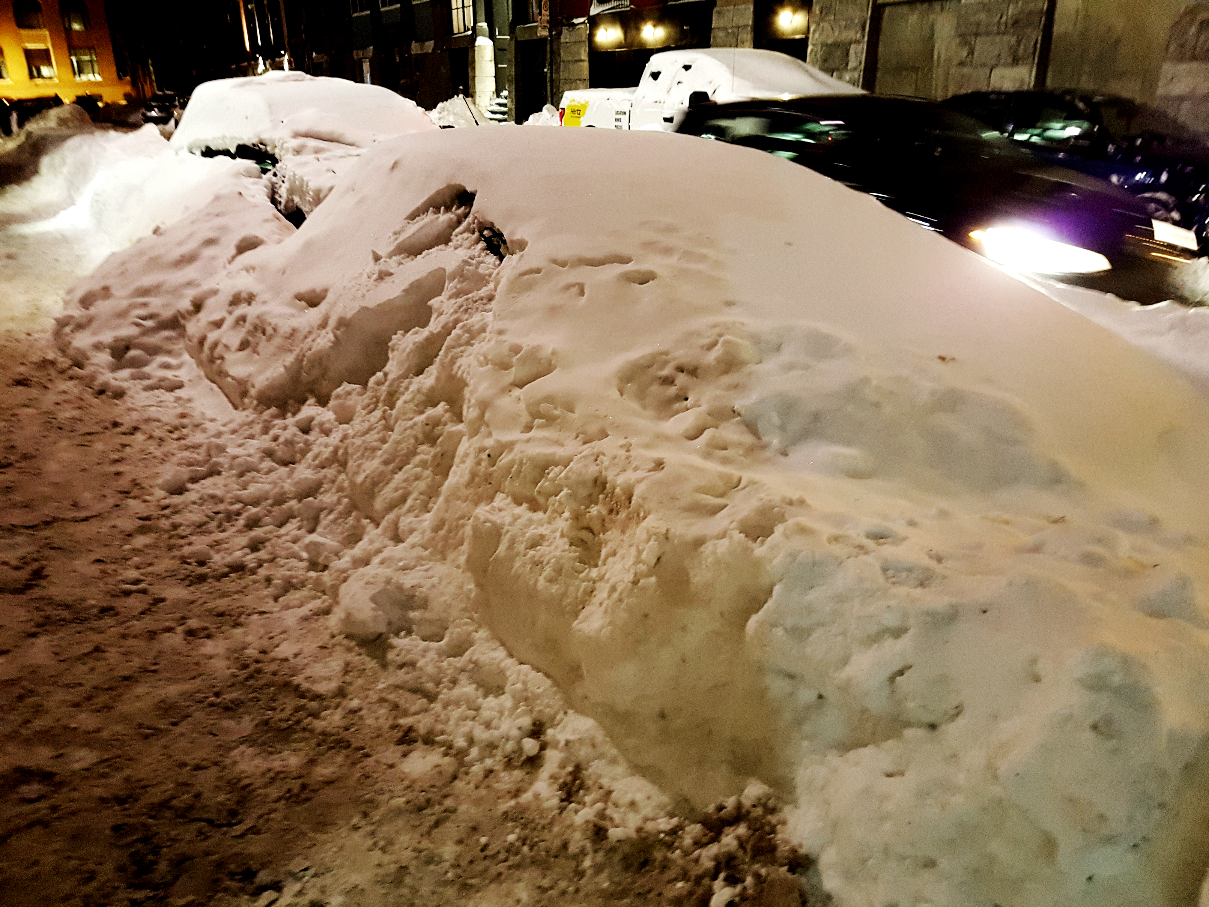 Car buried by snow in Montreal, Quebec, Canada on March 16, 2017 as a result of the March 2017 North American blizzard.